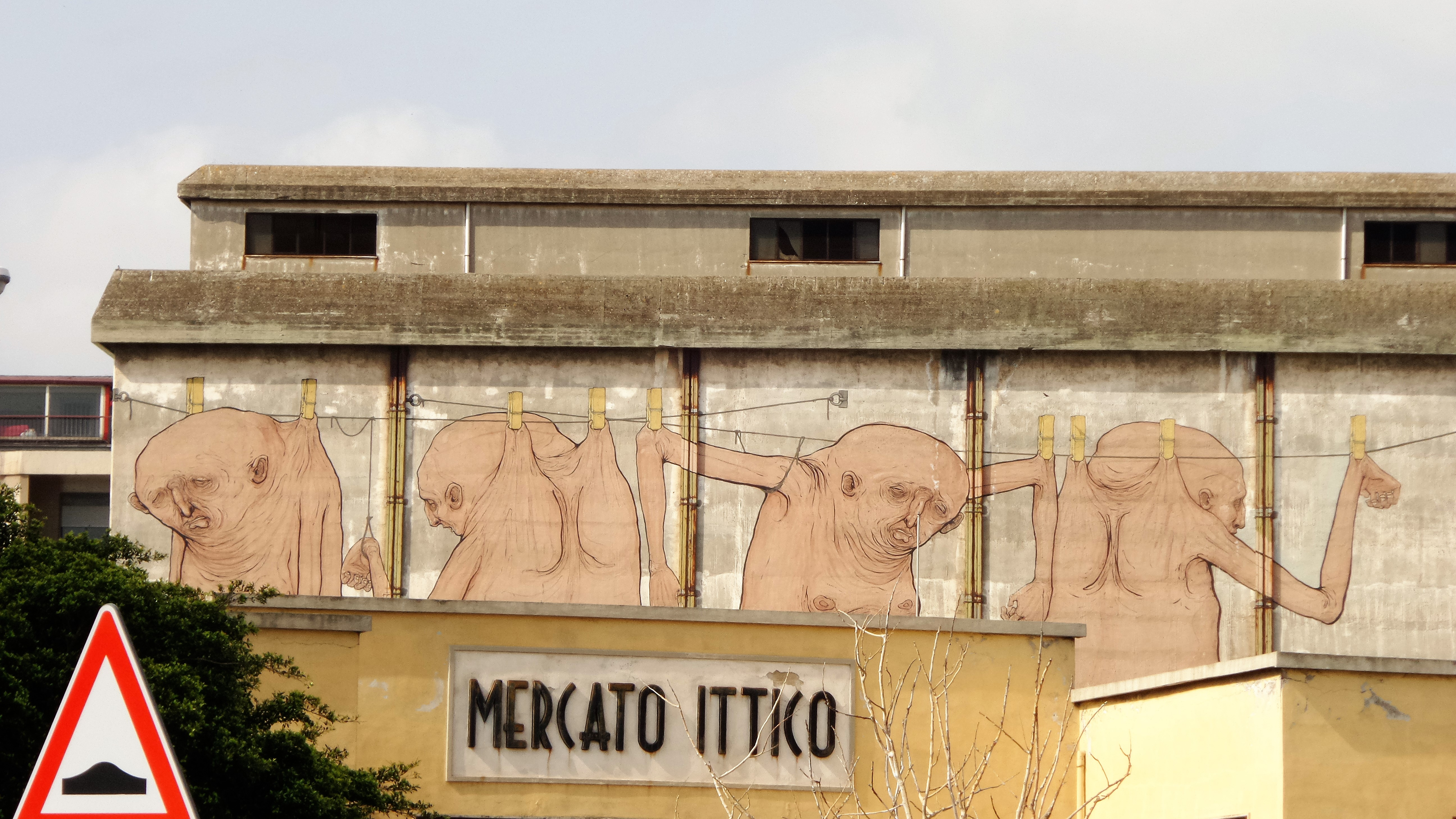 Murals in Messina Marittima